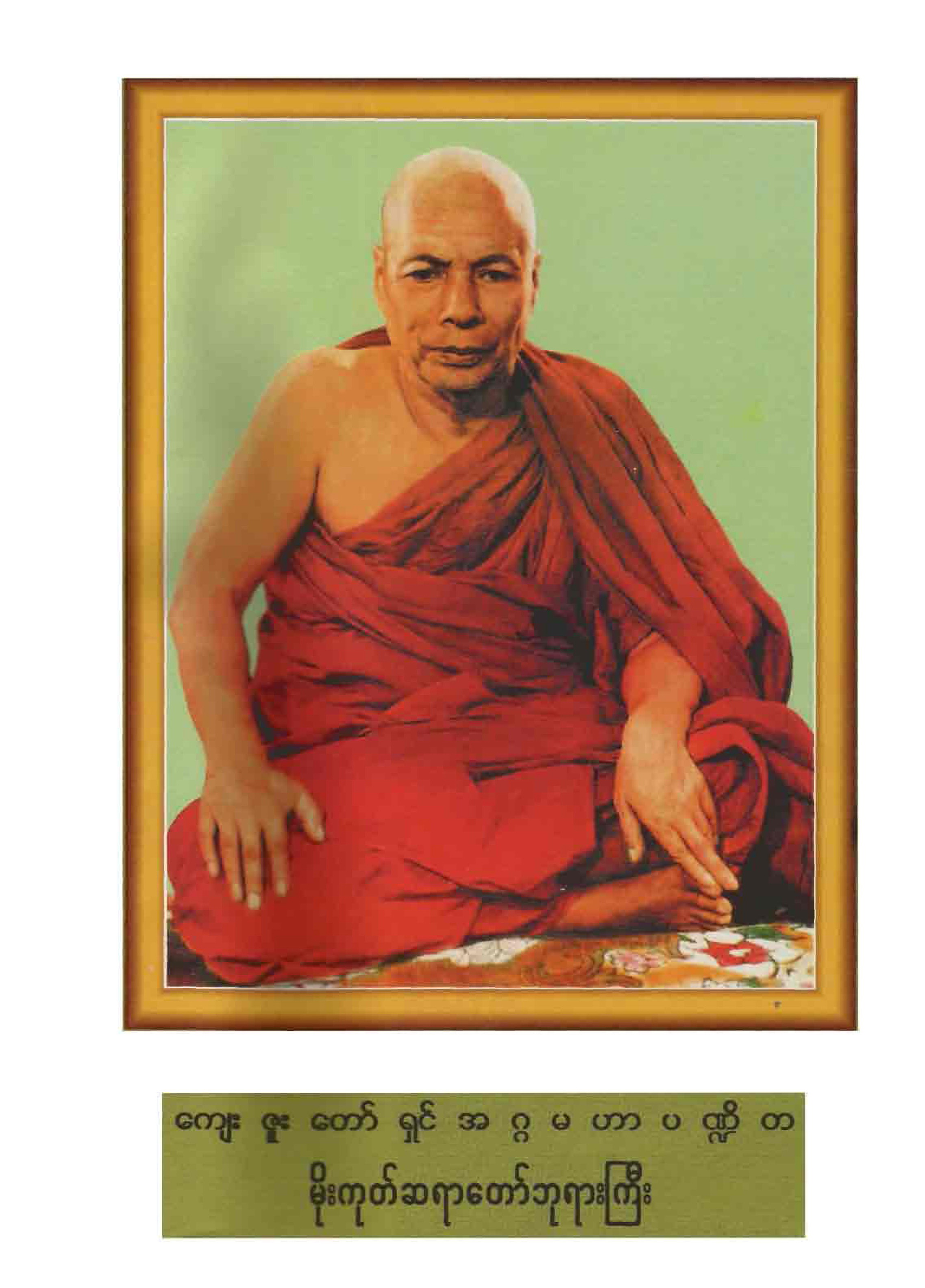 Mogok SayaDawGyi's Photo Color, Arhat Sayadawgyi, Mokgok Vipassana Meditation Center, Myanmar (Burma)